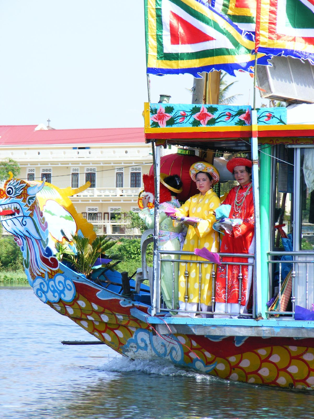 Perfume River, Hue Festival Day.